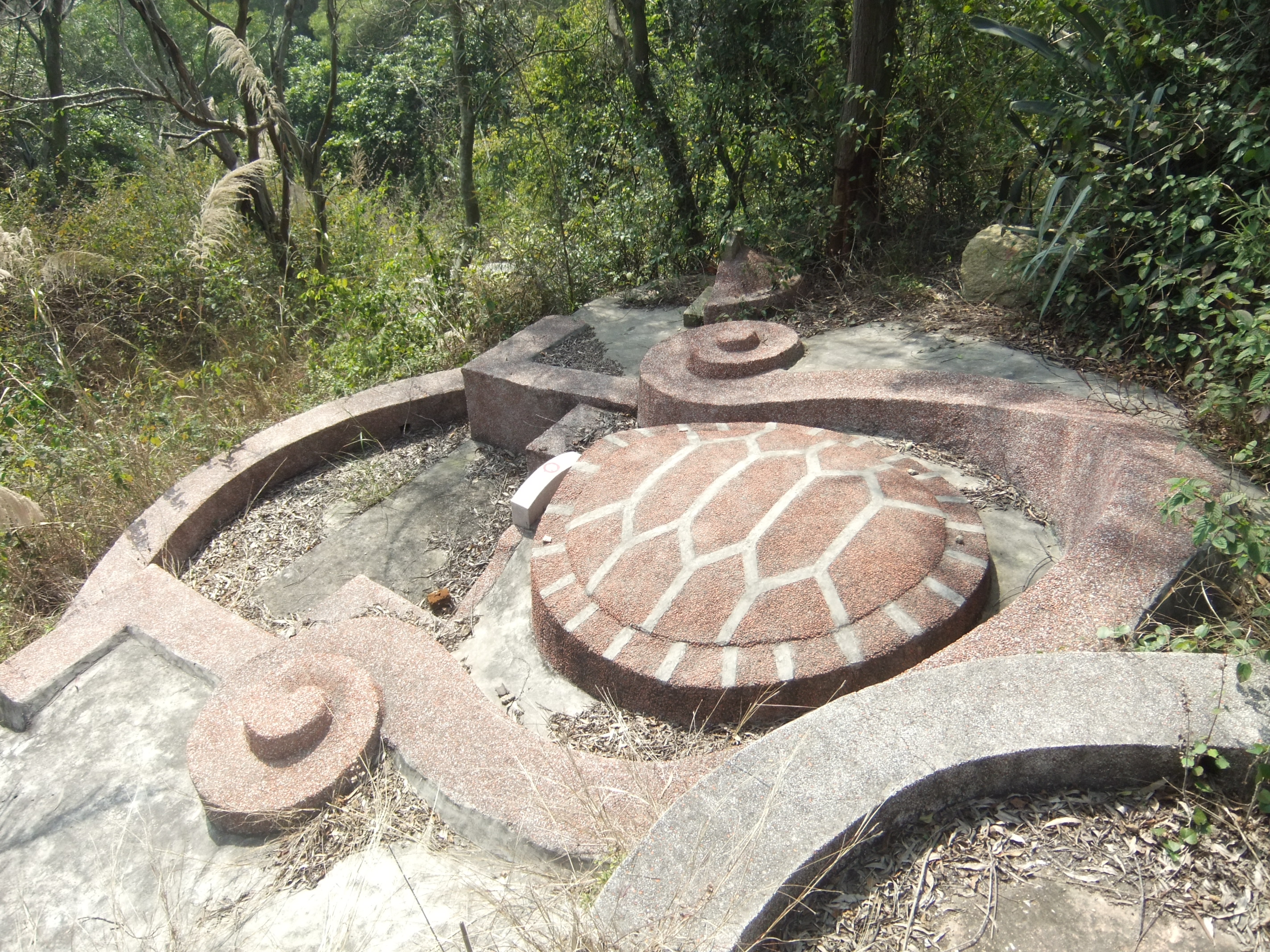 Tombs in Lingshan Islamic Cemetery (Lingshan Park) in Quanzhou. Some are classic Fujian "turtle-back tombs"; others, of a hybrid variety, with the central "turtle back" replaced with an Islamic-style sarcophagus. And there are some tombs that are just a small earth hill...